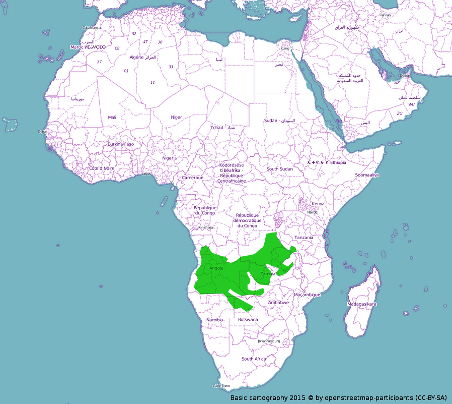 Distribution area of Sharp-tailed Glossy-Starling (Lamprotornis acuticaudus)